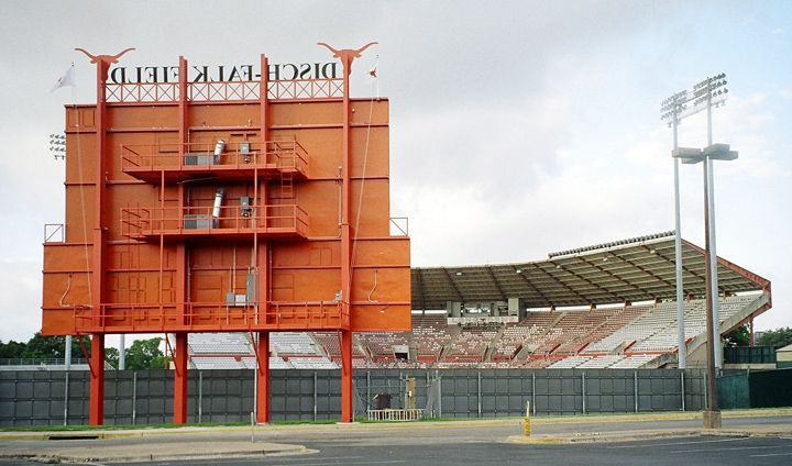 UFCU Disch-Falk Field located in Austin, Texas, United States.